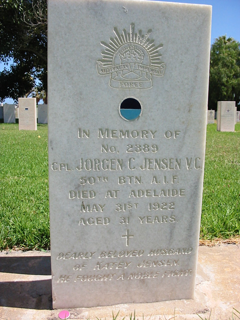 The image shows Jorgen Jensen's grave in Adelaide's West Terrace Cemetery, taken by Trevor Peart in 2004.